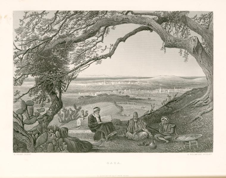 Gaza.